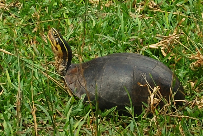 Cuora amboinensis from Simeulue, Indonesia